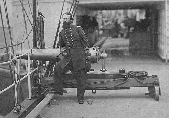 Rear Admiral David Dixon Porter, USN, Commander, North Atlantic Blockading Squadron, on the main deck of his flagship, USS Malvern